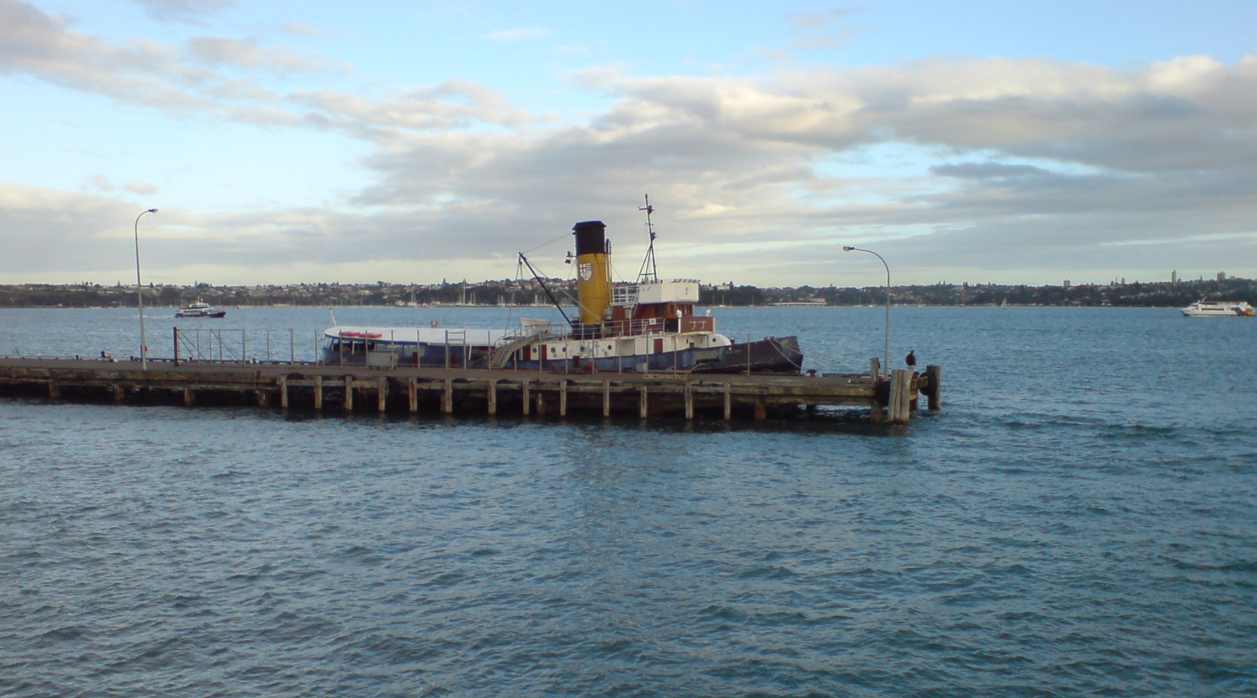 The William C Daldy at the Devonport Wharf, Devonport, looking north.